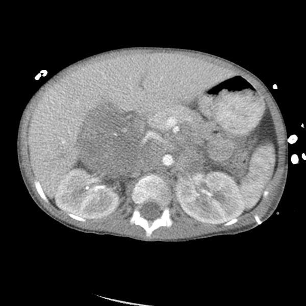 Neuroblastoma, CT of the abdomen